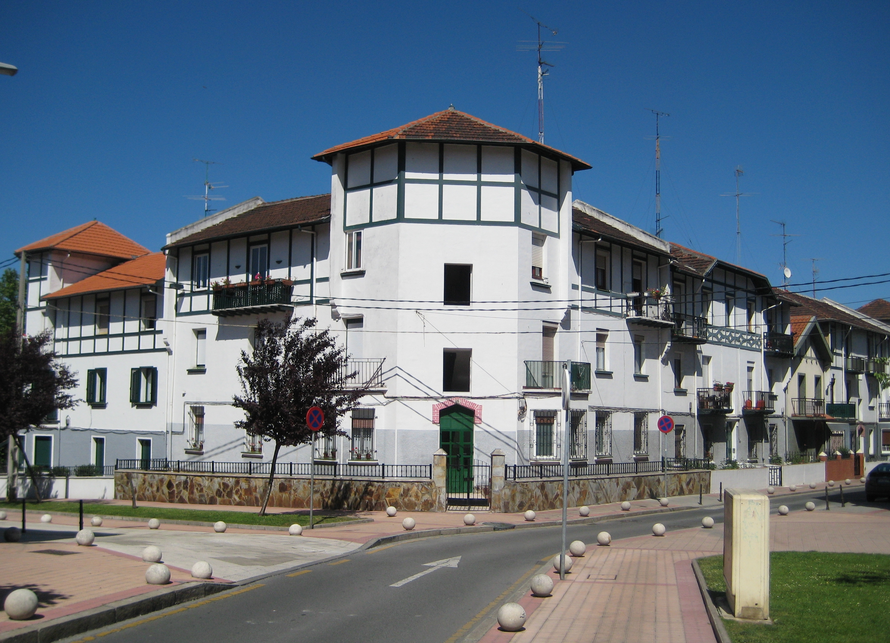 Houses built in 1918 by Sociedad de Casas Baratas de Baracaldo y Sestao in Elejalde Street in San Vicente de Baracaldo (currently Barakaldo), after a design by Manuel María de Smith. From a photograph taken in 2010.